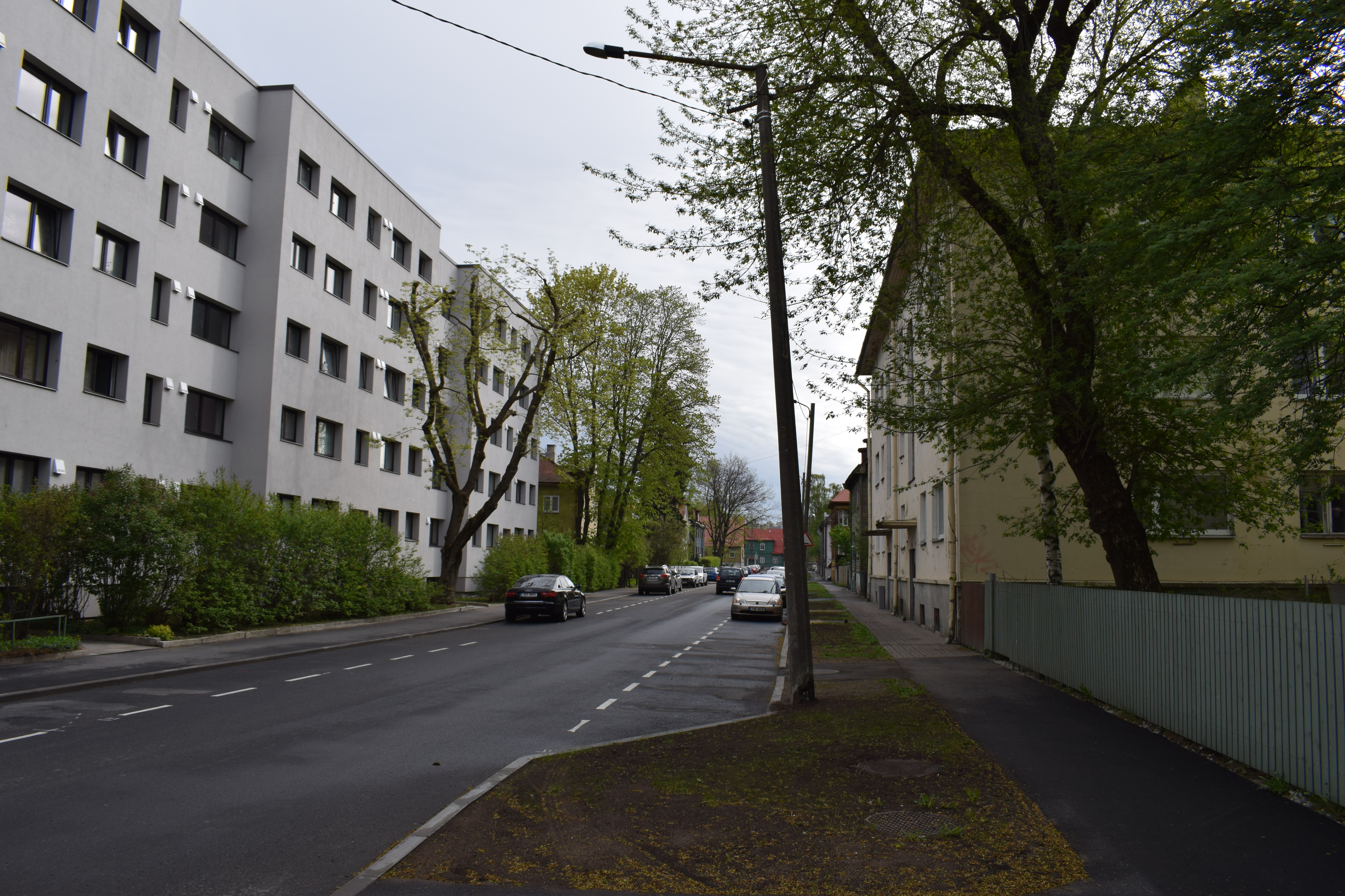 Kasvu tänav